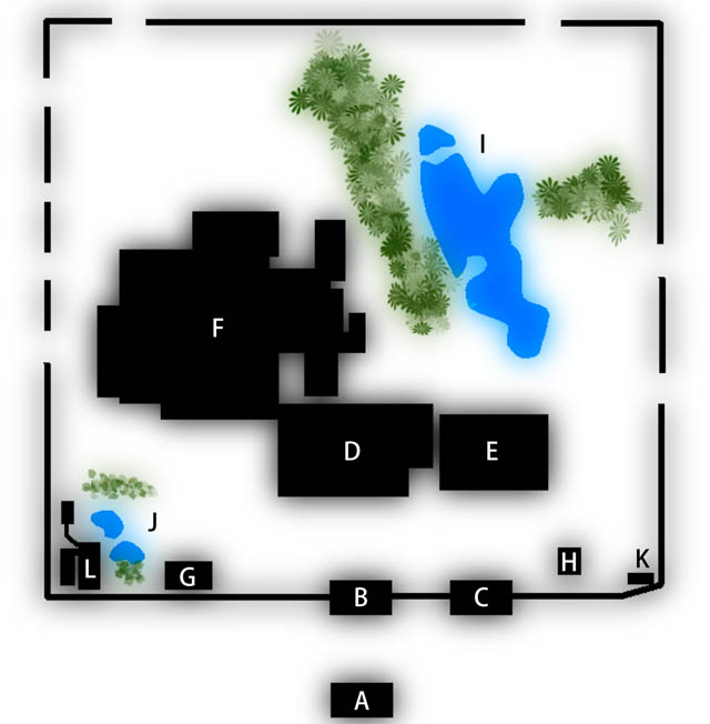 Plan of NishiHonganji Temple. 西本願寺伽藍配置図A:総門 B:御影堂門 C:阿弥陀堂門 D:御影堂 E:阿弥陀堂 F:書院 G:鐘楼 H:経蔵 I:百華園 J:滴翠園 K:太鼓楼 L:飛雲閣